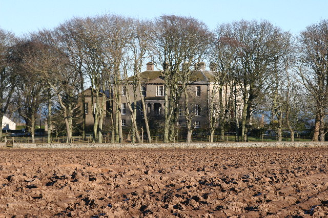 Usan House.